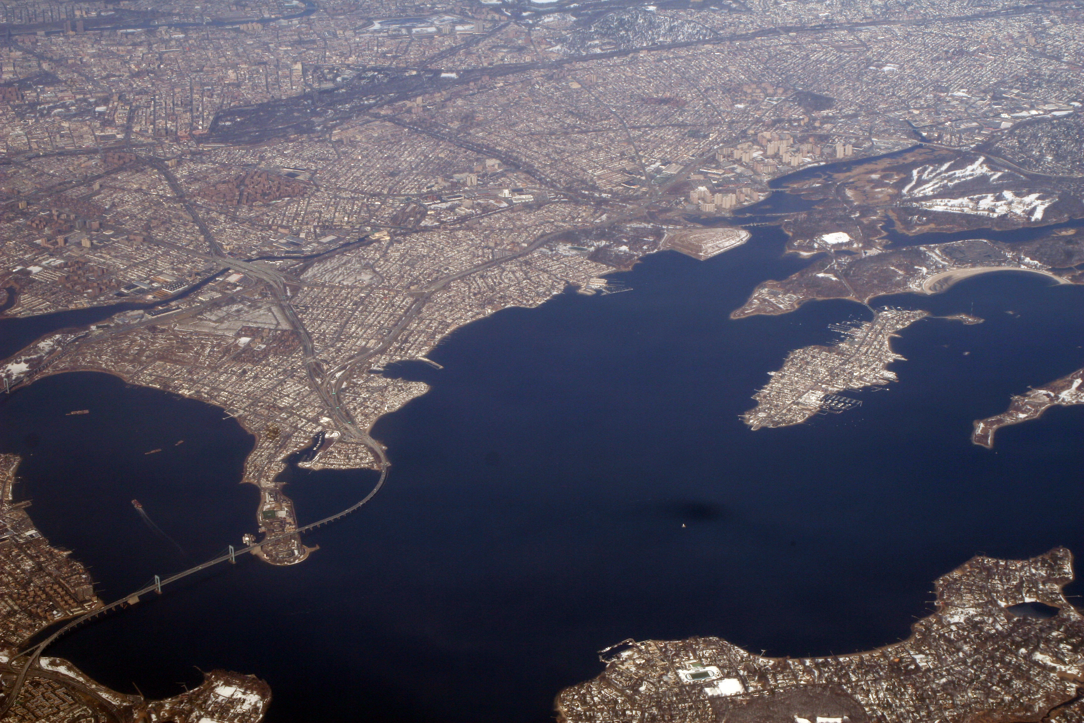 Long Island Sound where it narrows into New York City. The Bronx is above and Long Island below. Queens on the left, and Great Neck on the right. The big Island in the Bay is City Island. To its right is Hart Island. Both are off the crescent-shaped Pelham Bay. The green area near the top is the Bronx Zoo and the New York Botanical Gardens